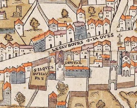 Saint-Jacques-du-Haut-Pas church on the Plan de Truschet and Hoyau (1550).